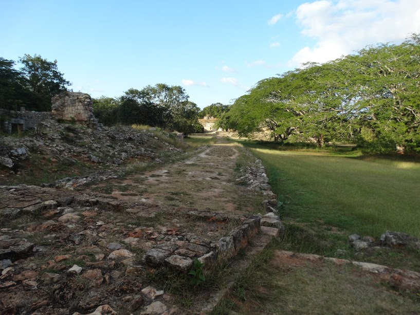 Labna old road